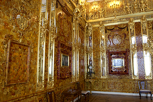 Pushkin (Russia), Amber room of the Catherine Palace